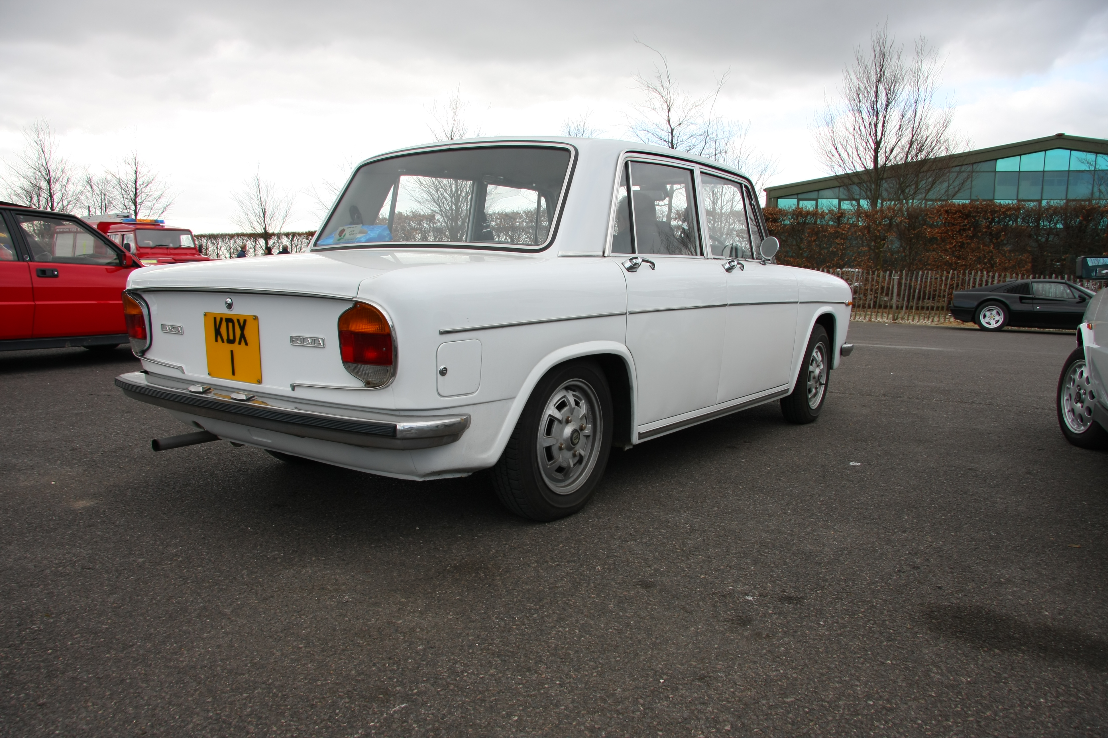 Lancia Motor Club Trackday Goodwood March 2009